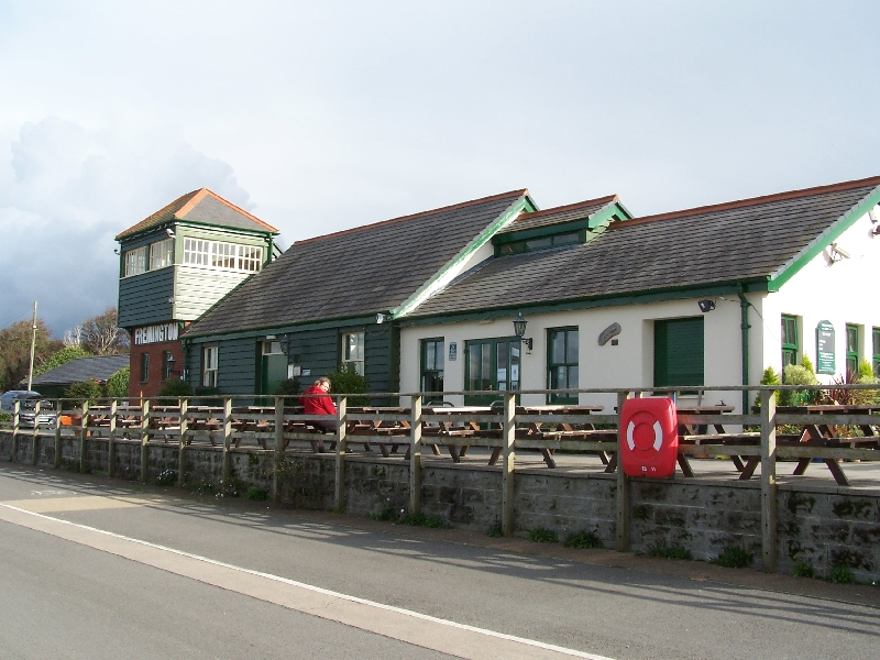 Fremington Station, Fremington, Devon